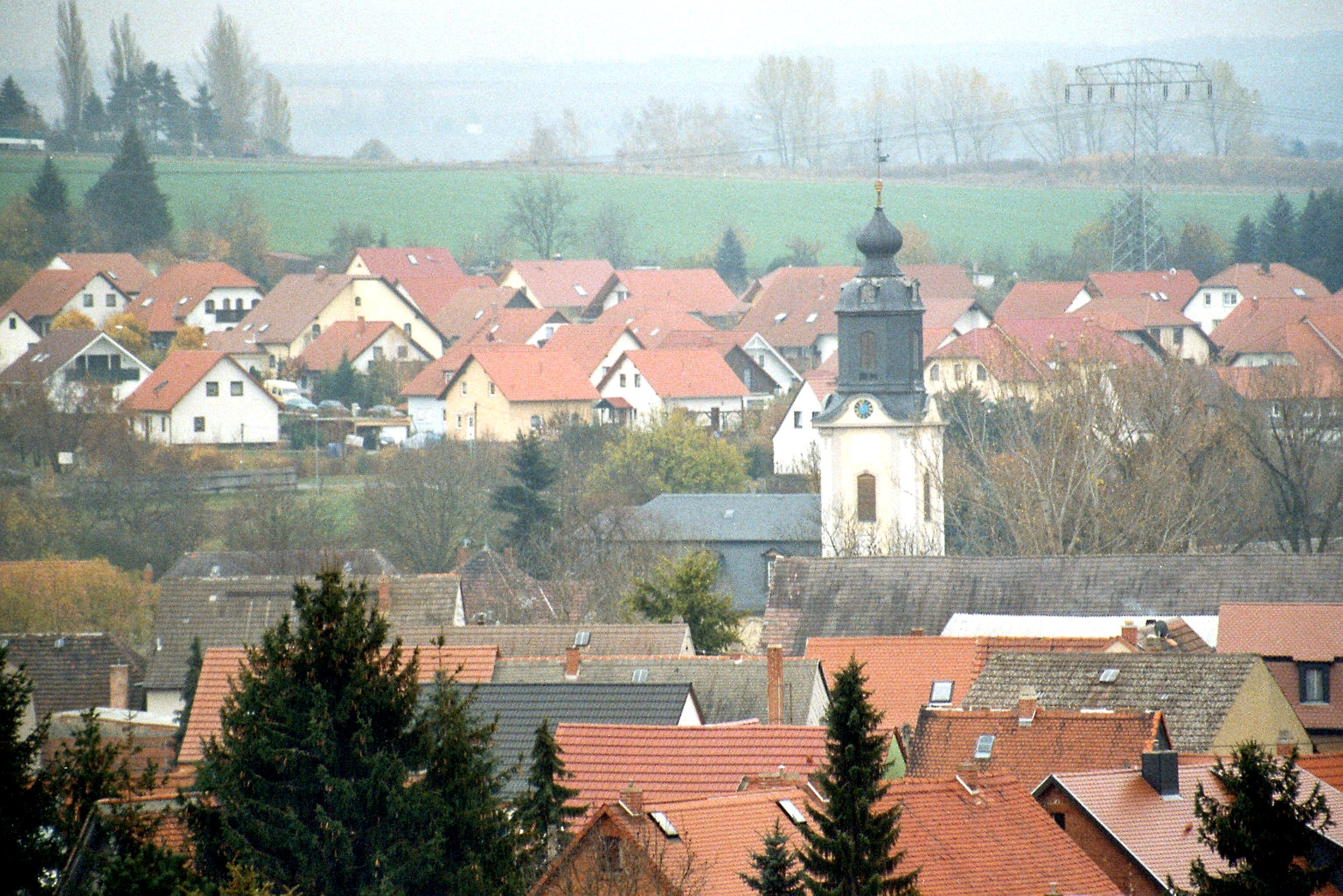 View to the village Niederroßla and to the village church (telephoto)